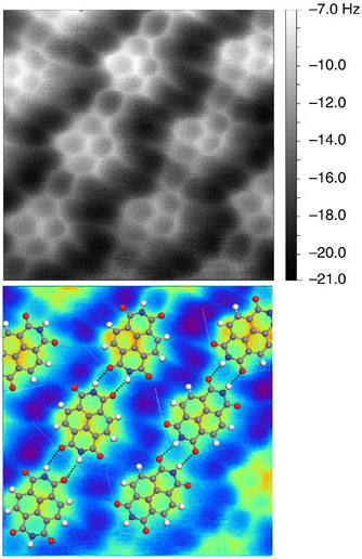 Top: Constant height non-contact atomic force microscopy image of a hydrogen-bonded naphthalene tetracarboxylic diimide (NTCDI) island on the Ag:Si(111)-(√3 x √3) R30° surface acquired at 77 K. Image size 2.1 by 2.0 nm (oscillation amplitude, 275 pm). Bottom: model (Colour coding: grey, carbon; white, hydrogen; red, oxygen; blue, nitrogen)